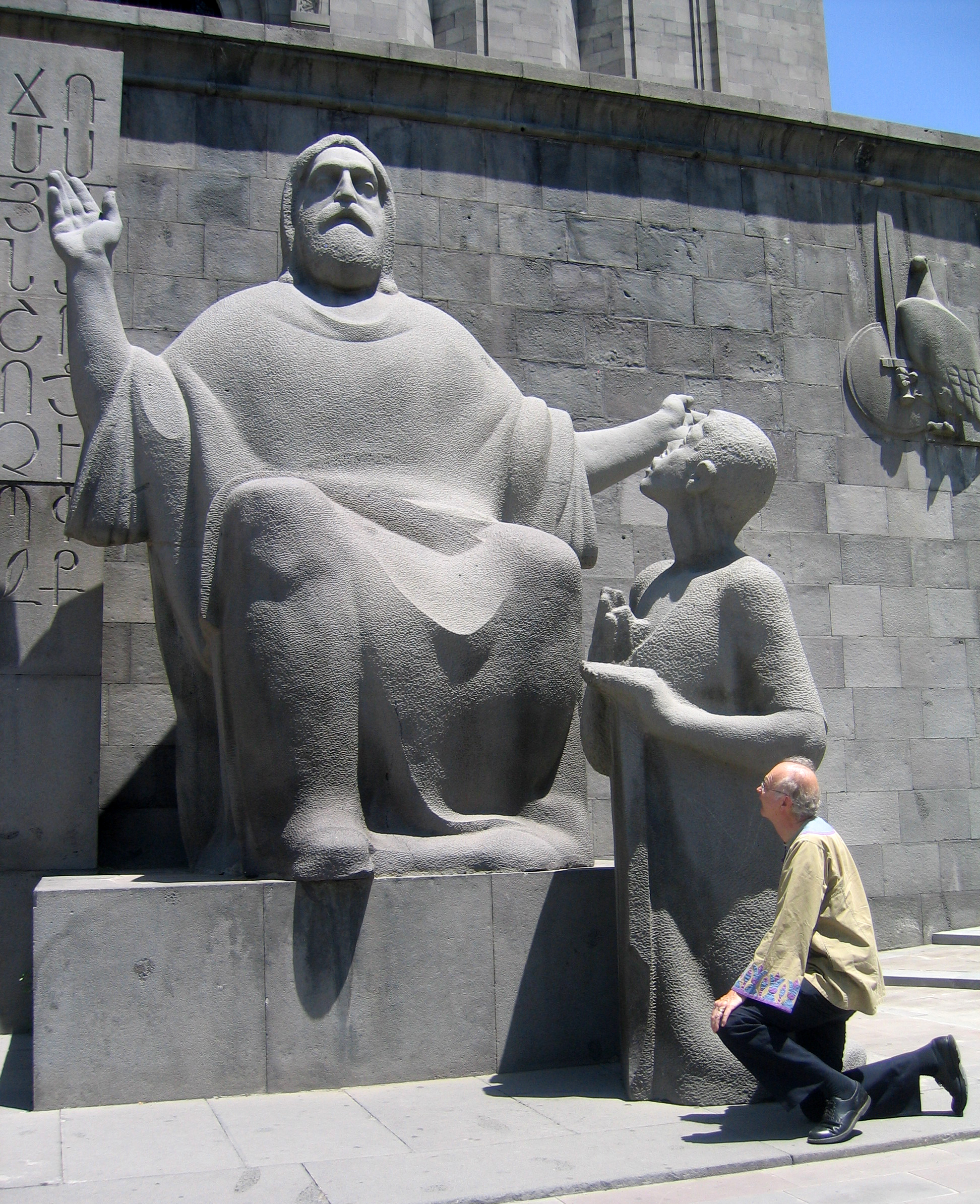 Donald Knuth in front of statue St. Mesrop Mashtots (inventor of the Armenian, Georgian and Caucasian Albanian alphabets in the 4th century), Matenadaran, Yerevan, Armenia, 9 June 2006